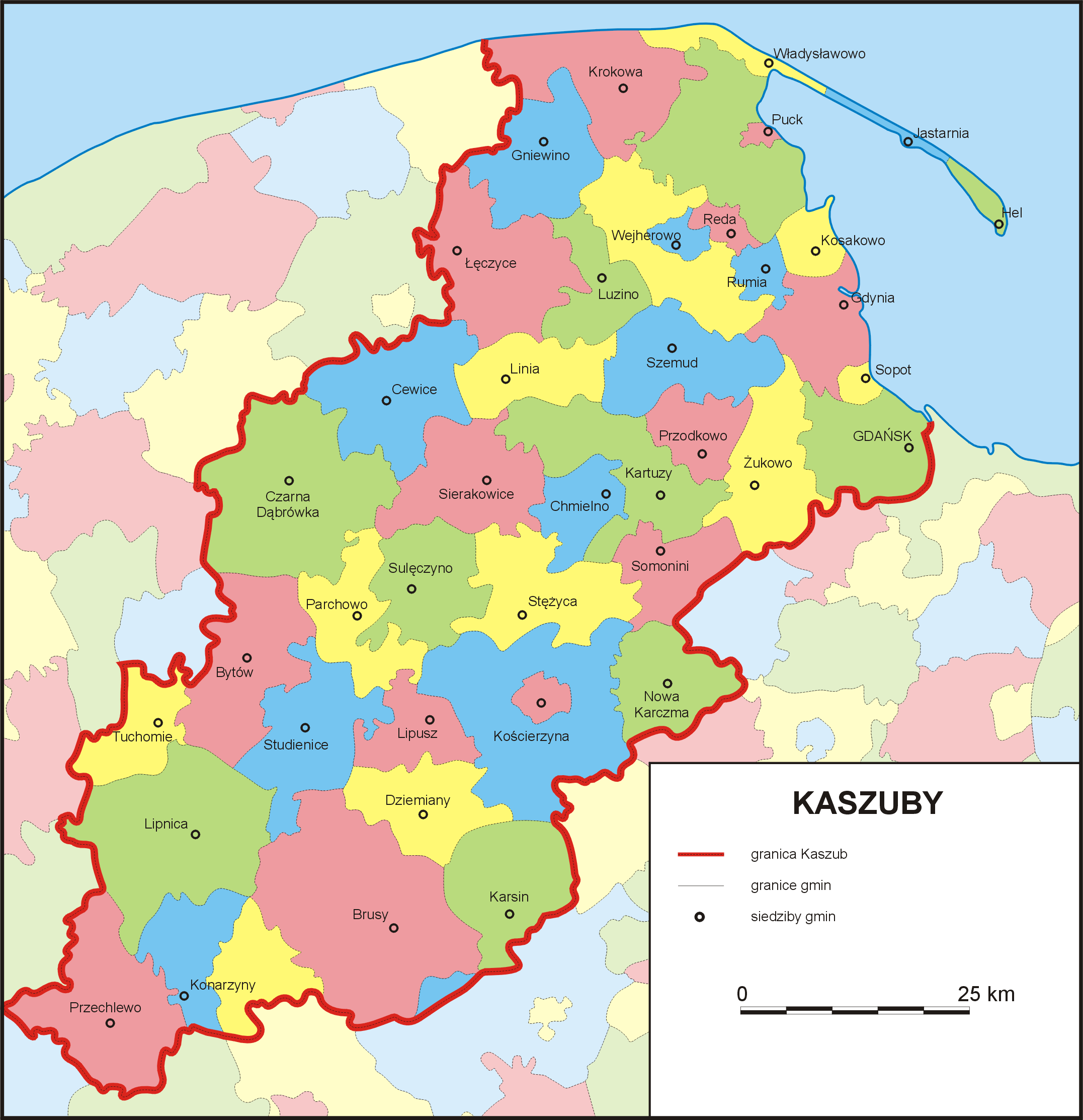 Map of administrative units nad parts of administrative units classified to be inhabited by Kashubians by dr Jan Mordawski